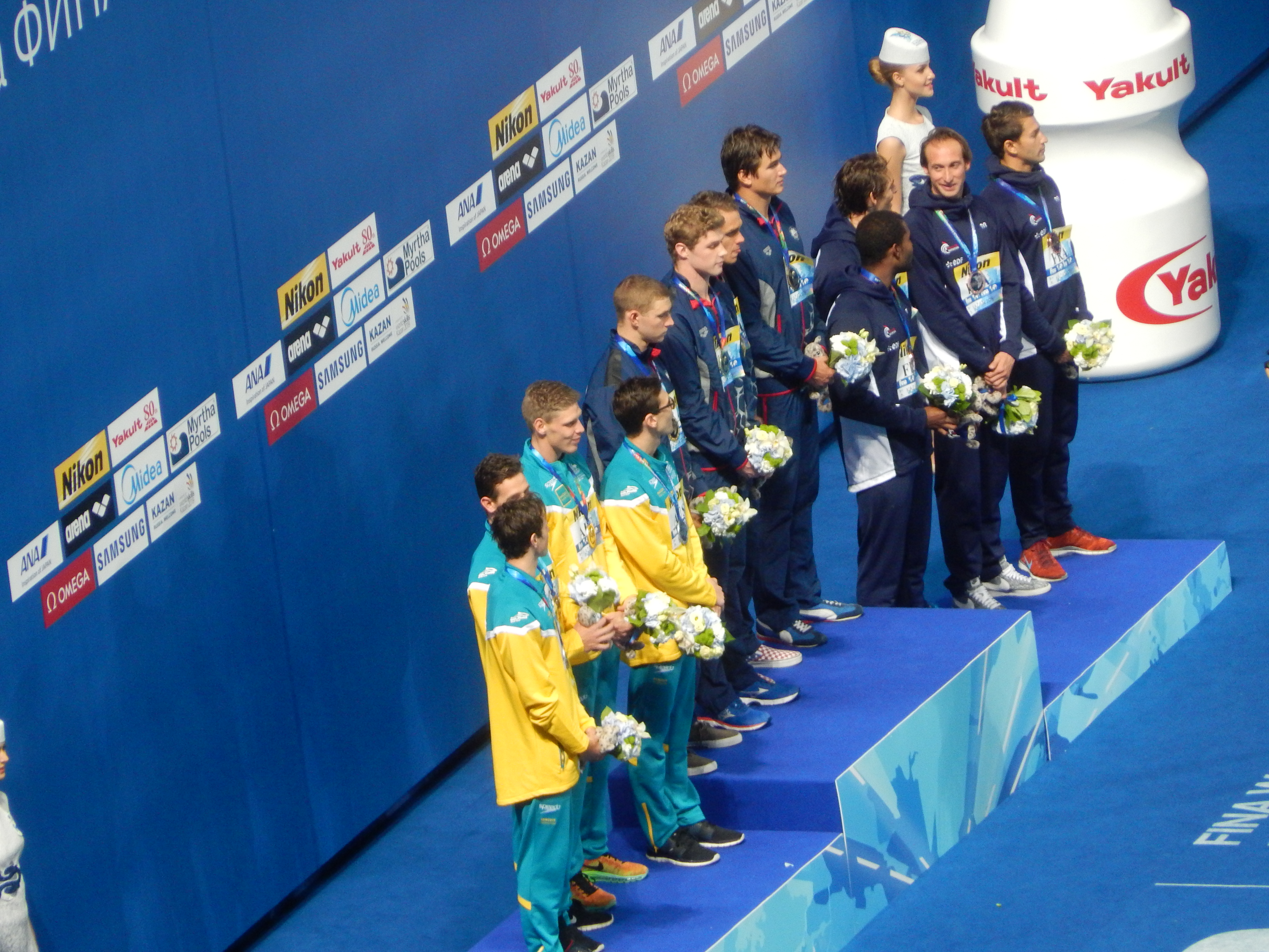 Medallists at the men's 4×100m medley relay in Kazan 2015